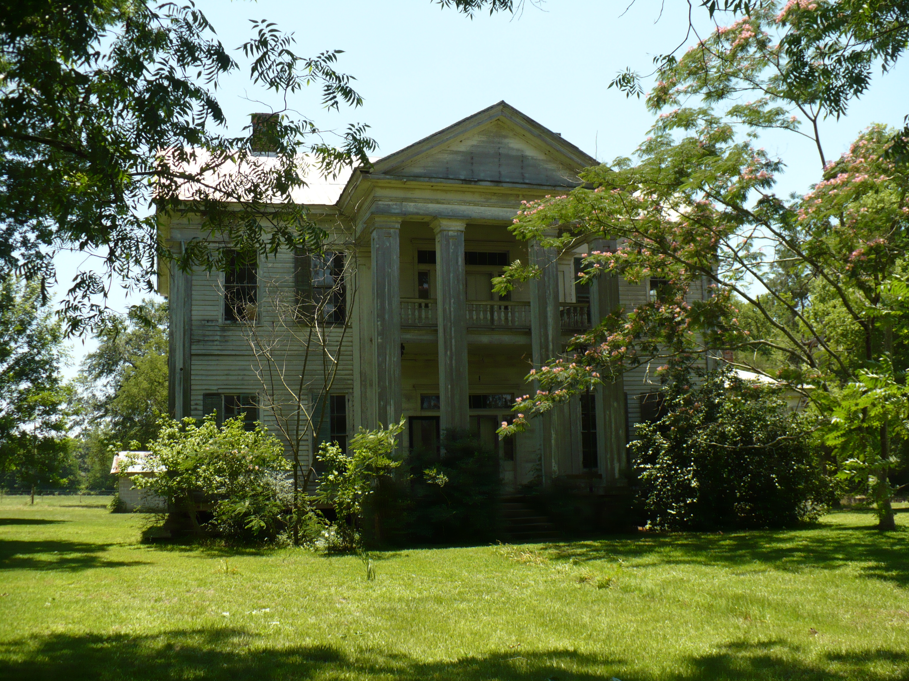 Crumptonia Plantation near Orrville, Dallas County, Alabama.